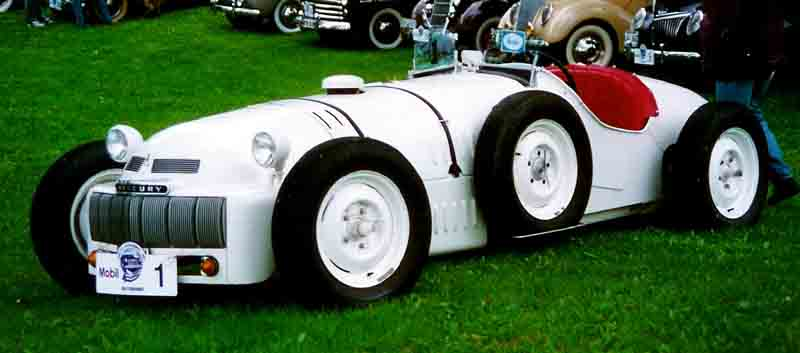 Ford V8 Special Racer 1948